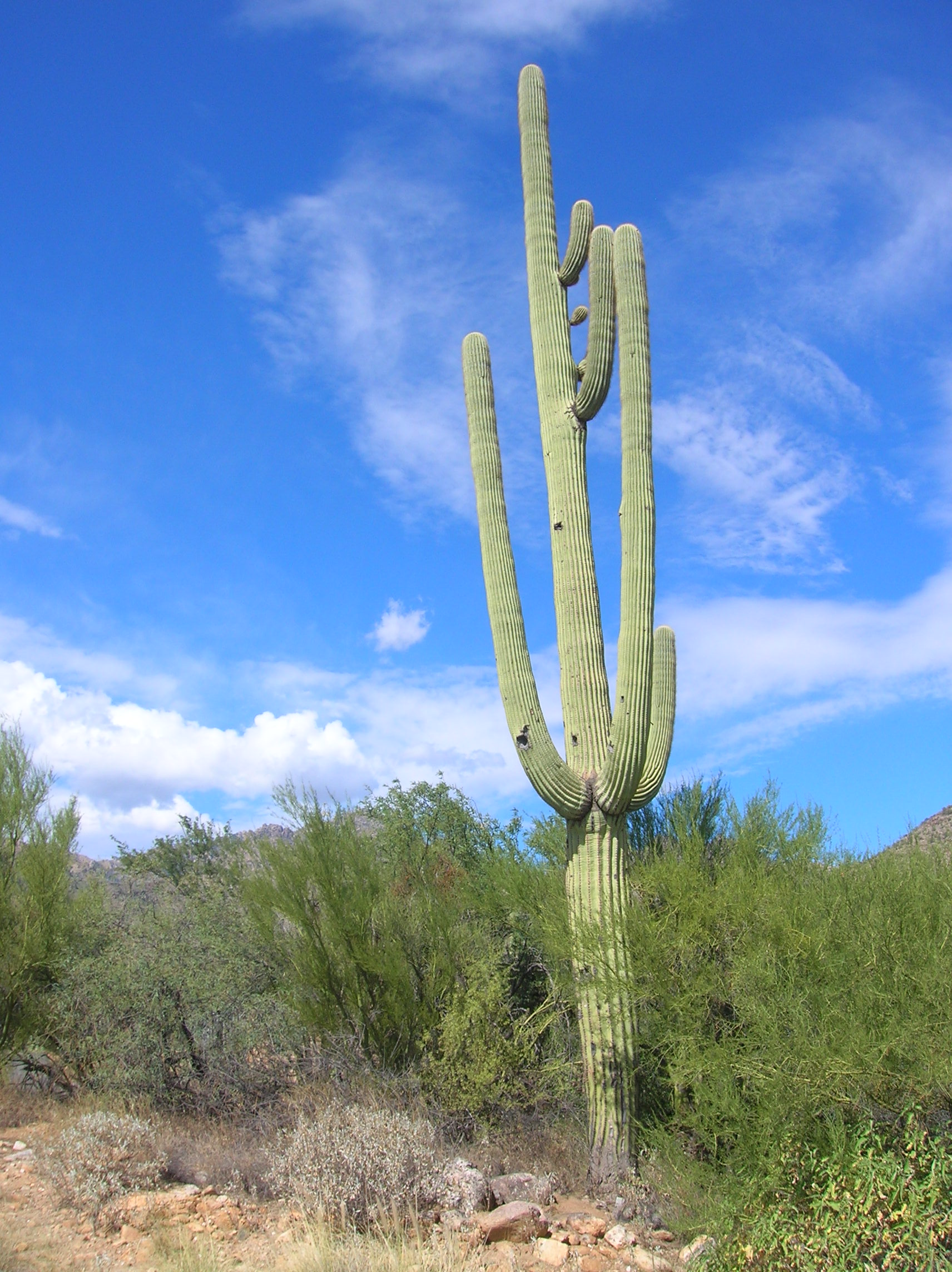 Saguaro in the Saguaro National Park